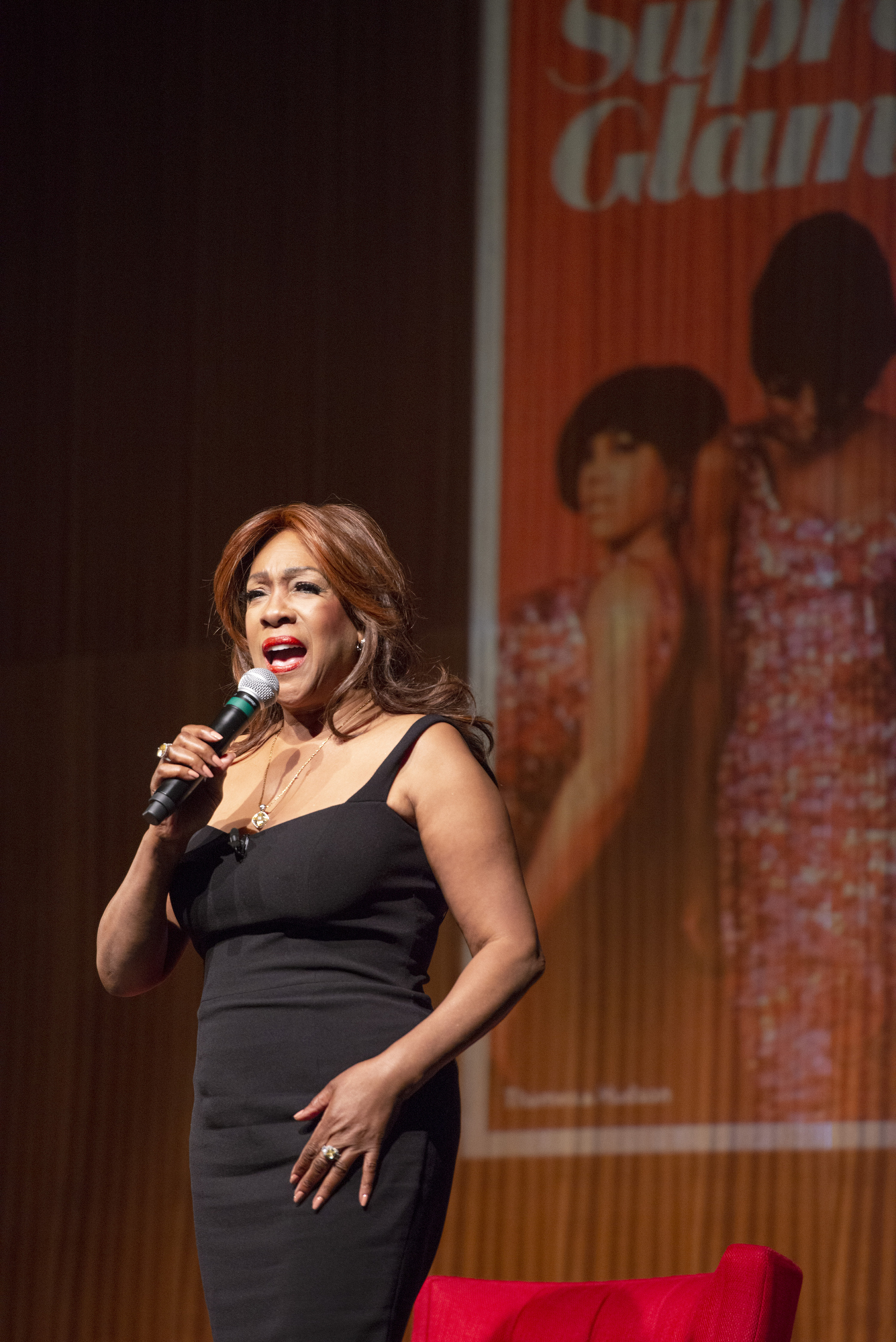 On Wednesday, Dec. 4, 2019, Friends of the LBJ Library presented an evening with Mary Wilson, a founding member of The Supremes, in honor of the LBJ Library special exhibition, Motown: The Sound of Young America.